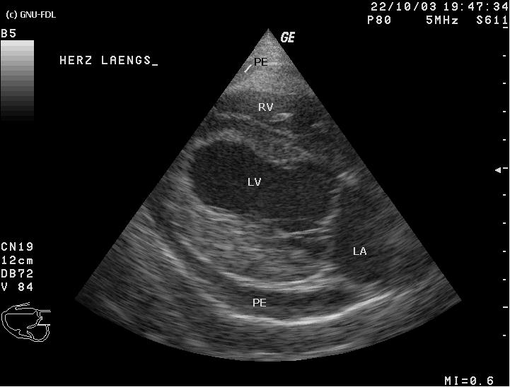 Echocardiographic image of a mild pericardial effusion in a dog, right parasternal long axis LV - left ventricle; RV - right ventricle, LA - left atrium, PE - pericardial effusion